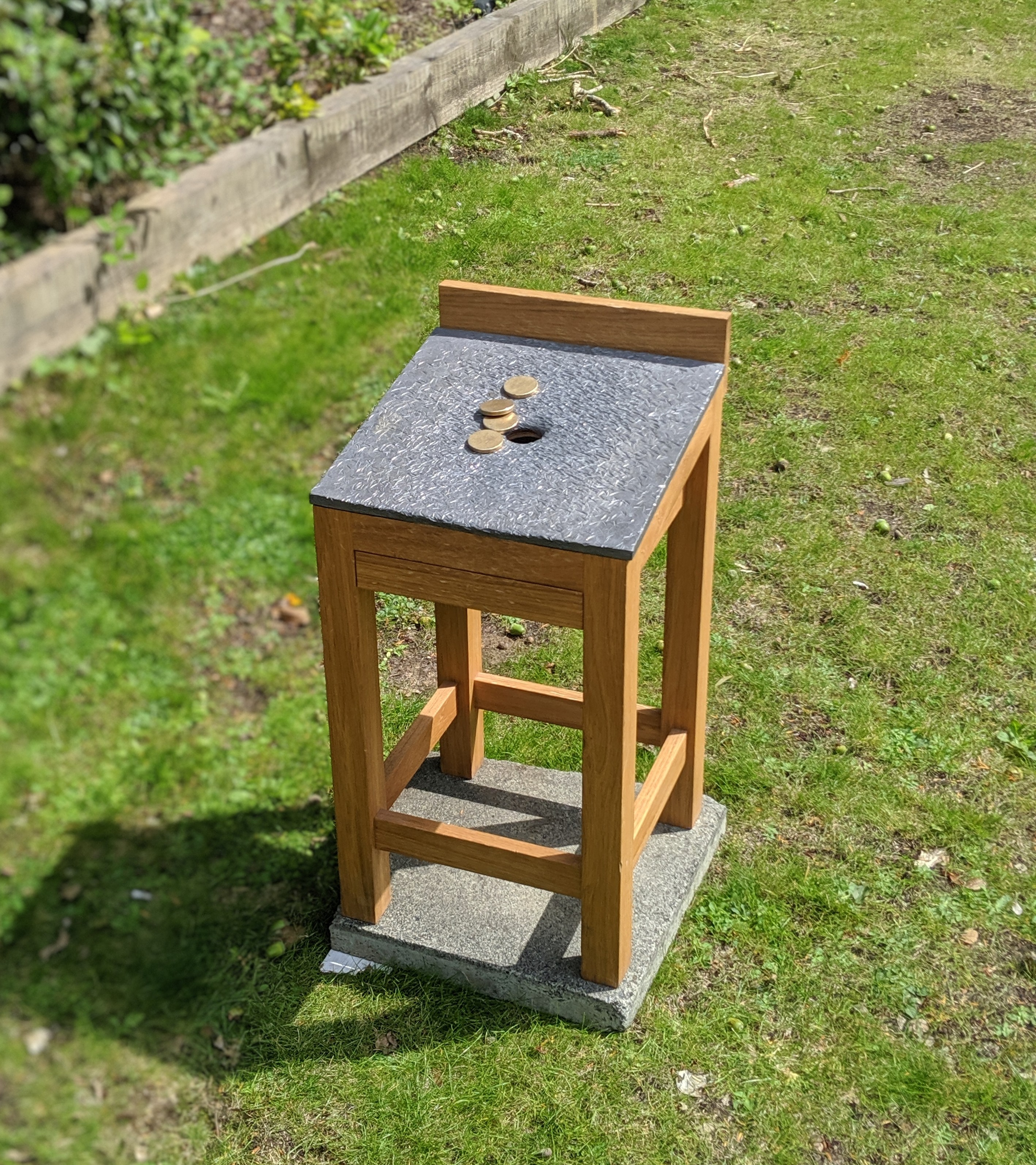 This is a photo of a Toad in the Hole table, with four brass playing coins, or "toads".